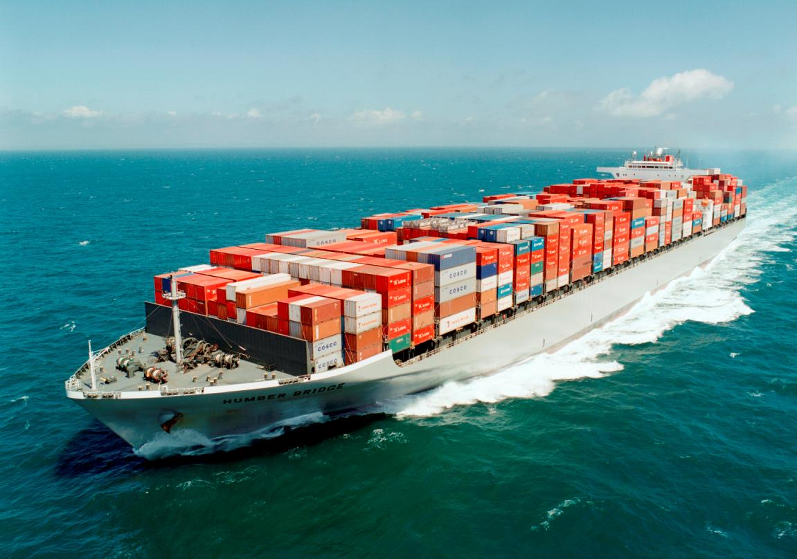 Containership Humber Bridge